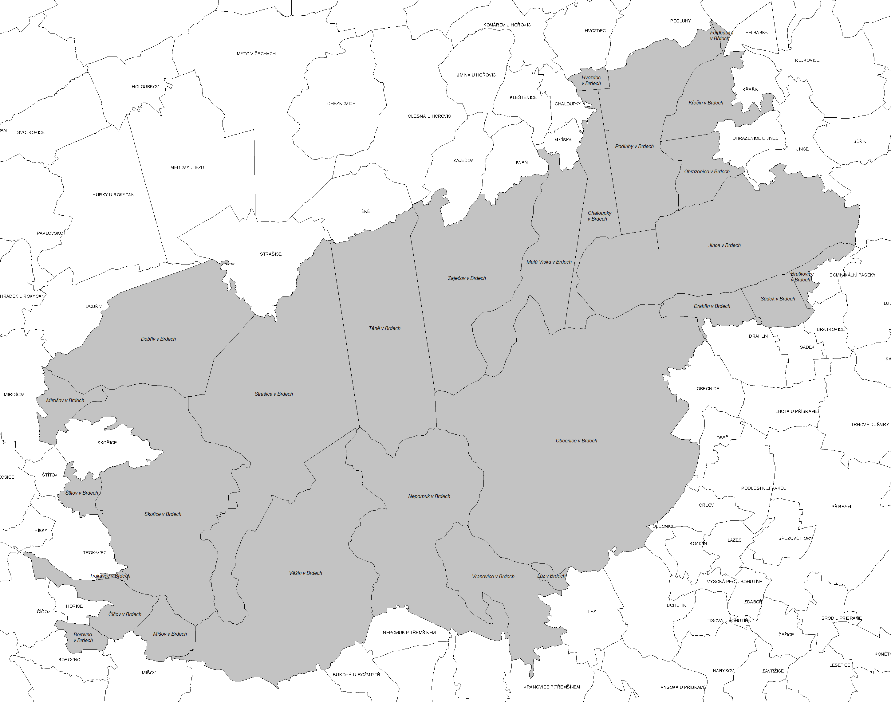 Cadastral areas of Military Training Area Brdy (2015)